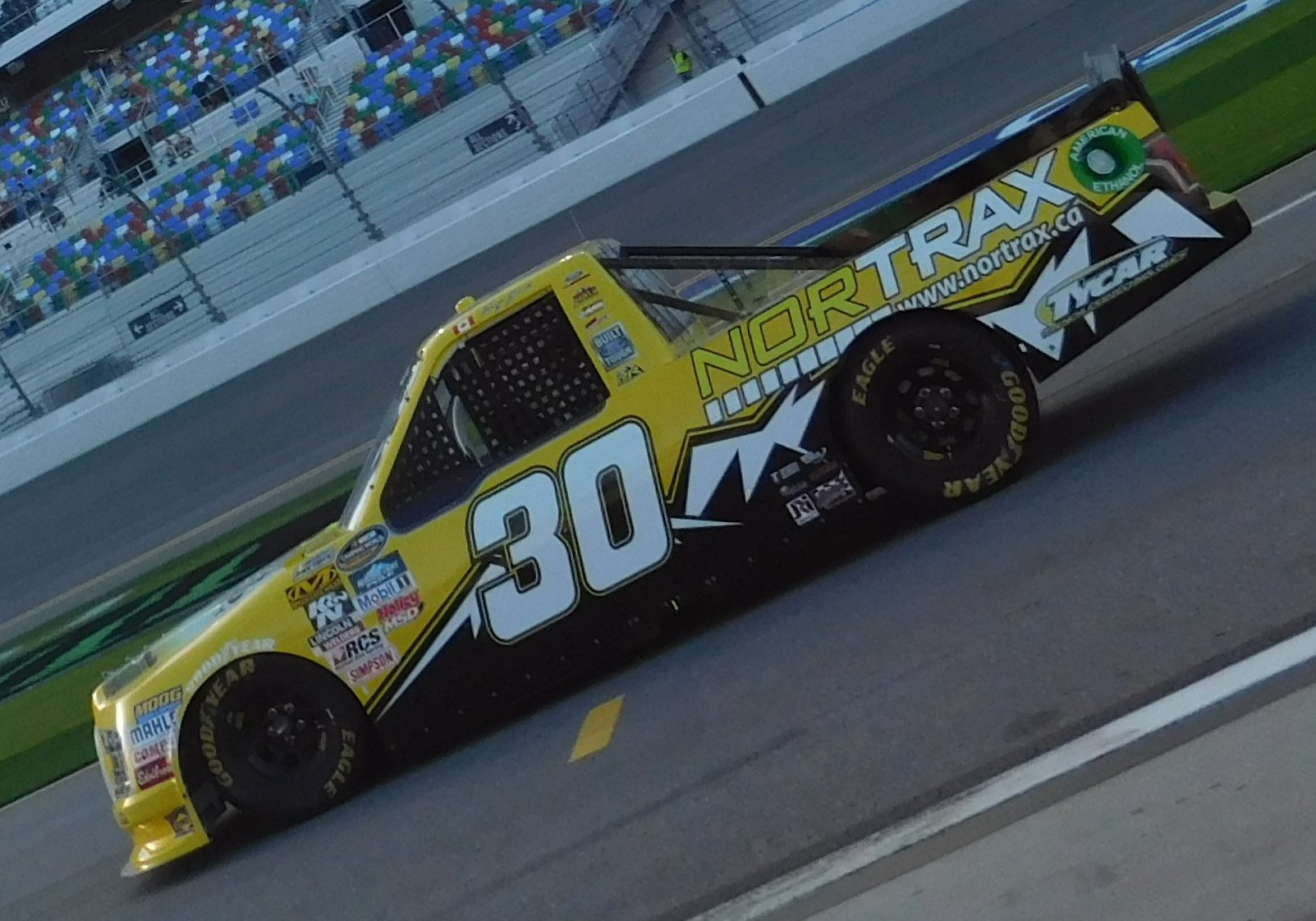 Terry Jones' No. 30 Nortrax/Buck Twenty Ford at Daytona International Speedway in 2017